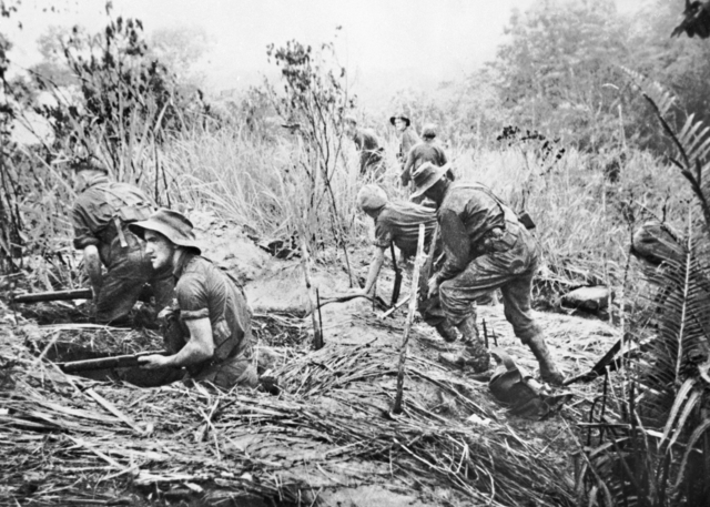 FORWARD TROOPS OF THE 2/3RD AUSTRALIAN INDEPENDENT COMPANY OCCUPYING WEAPON-PITS DURING THE ATTACK ON "TIMBERED KNOLL", NORTH OF ORODUBI, NEW GUINEA, ON 1943-07-29. (FILM STILL)